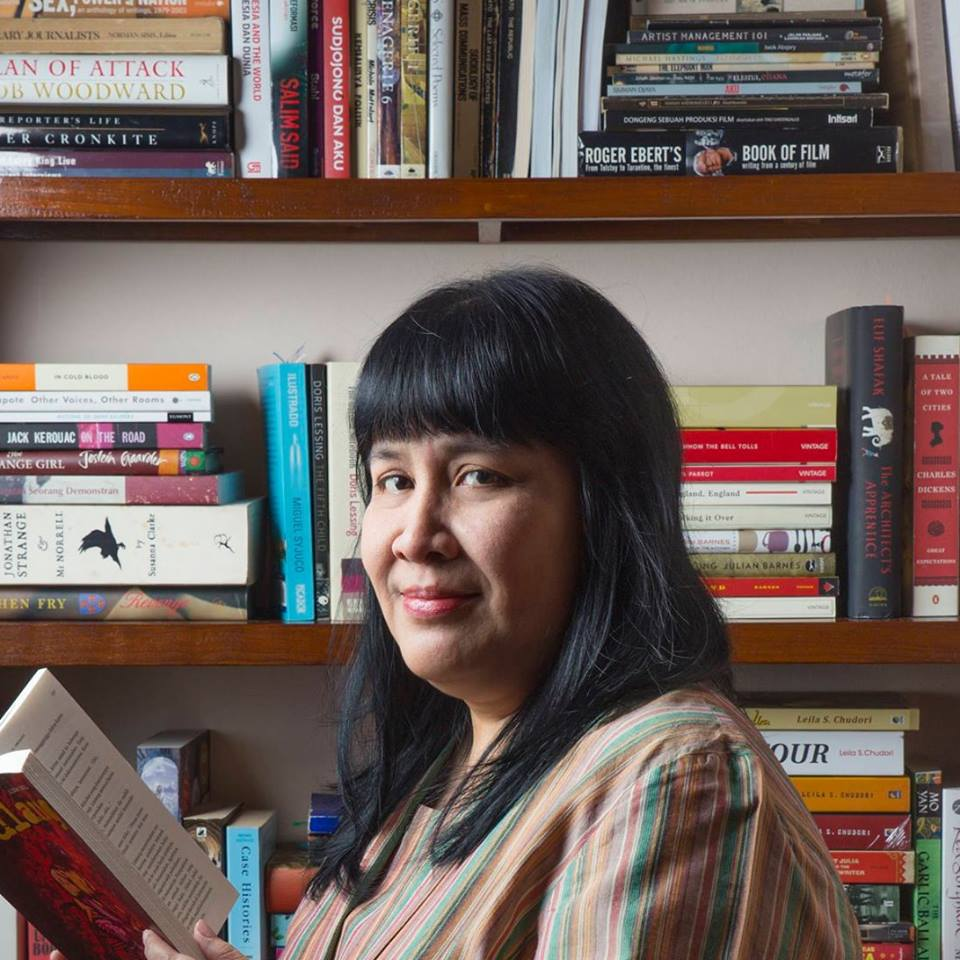 Leila Chudori in 2014